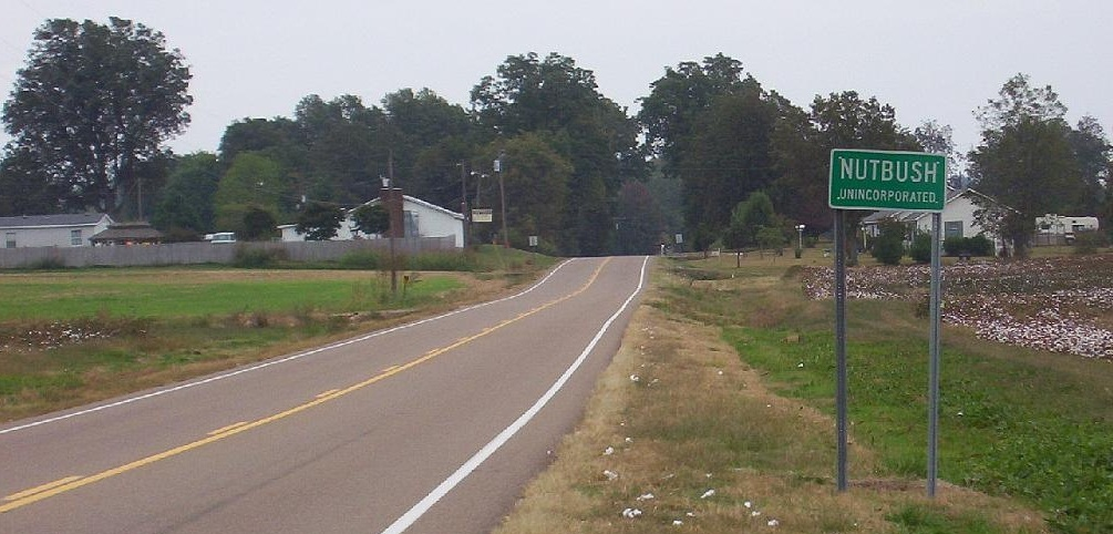 Photo made in 2004 Thomas R Machnitzki I took the photo mself, feel free to use it